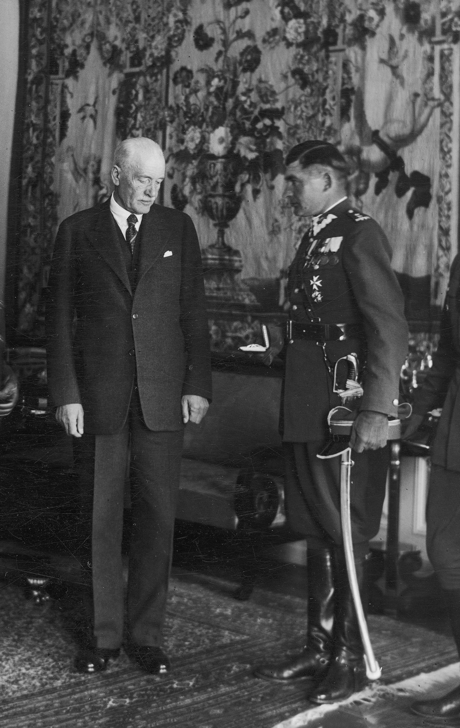 Prezydent Ignacy Mościcki and lieutenant-colonel Andrzej Kunachowicz.